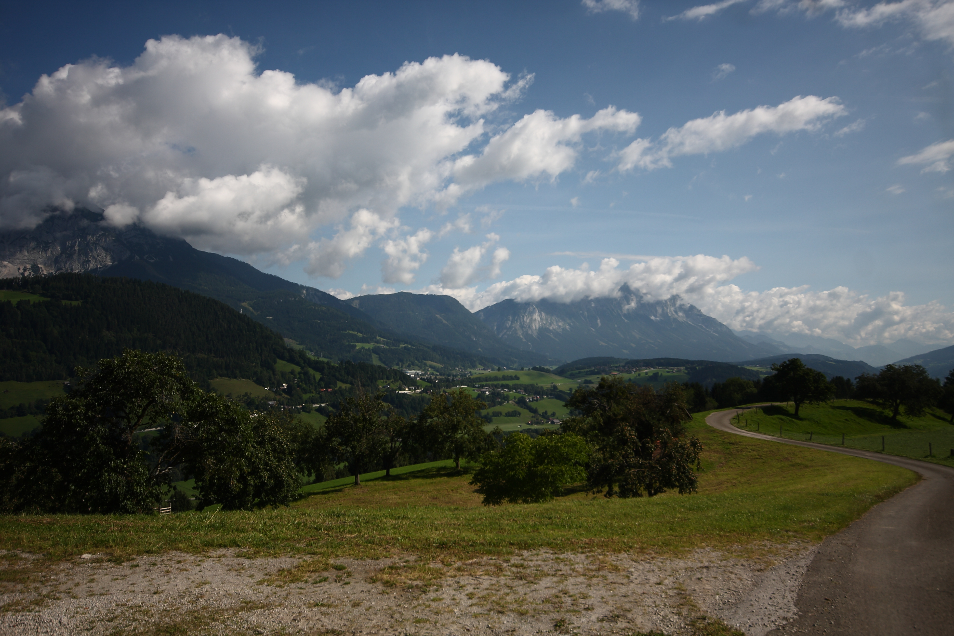 farmhouse, Galsterberger, Michaelerberg, Styria, Austria